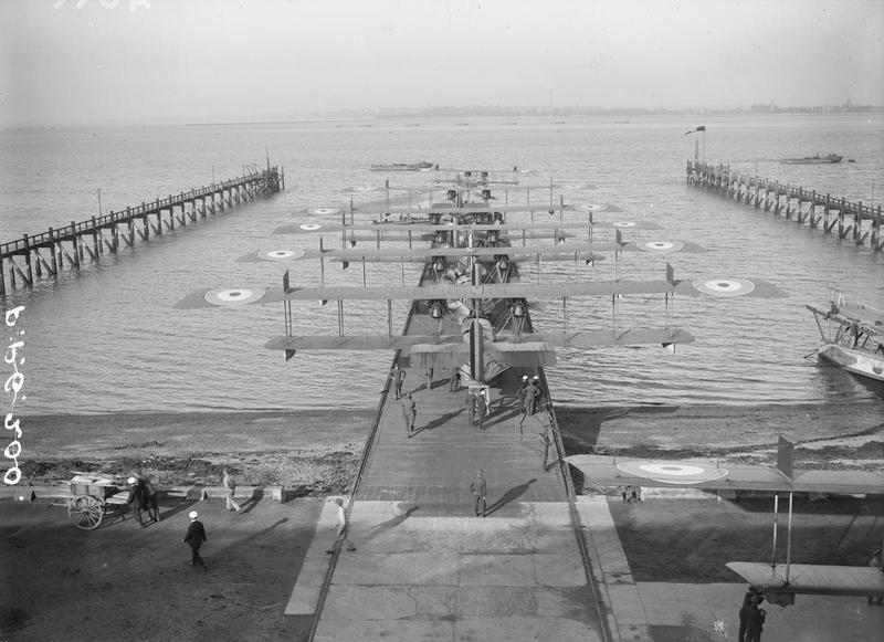 Photography F. 2B Flying Boats starting out on patrol. Some of the motor boats which towed them can be seen. Felixstowe.